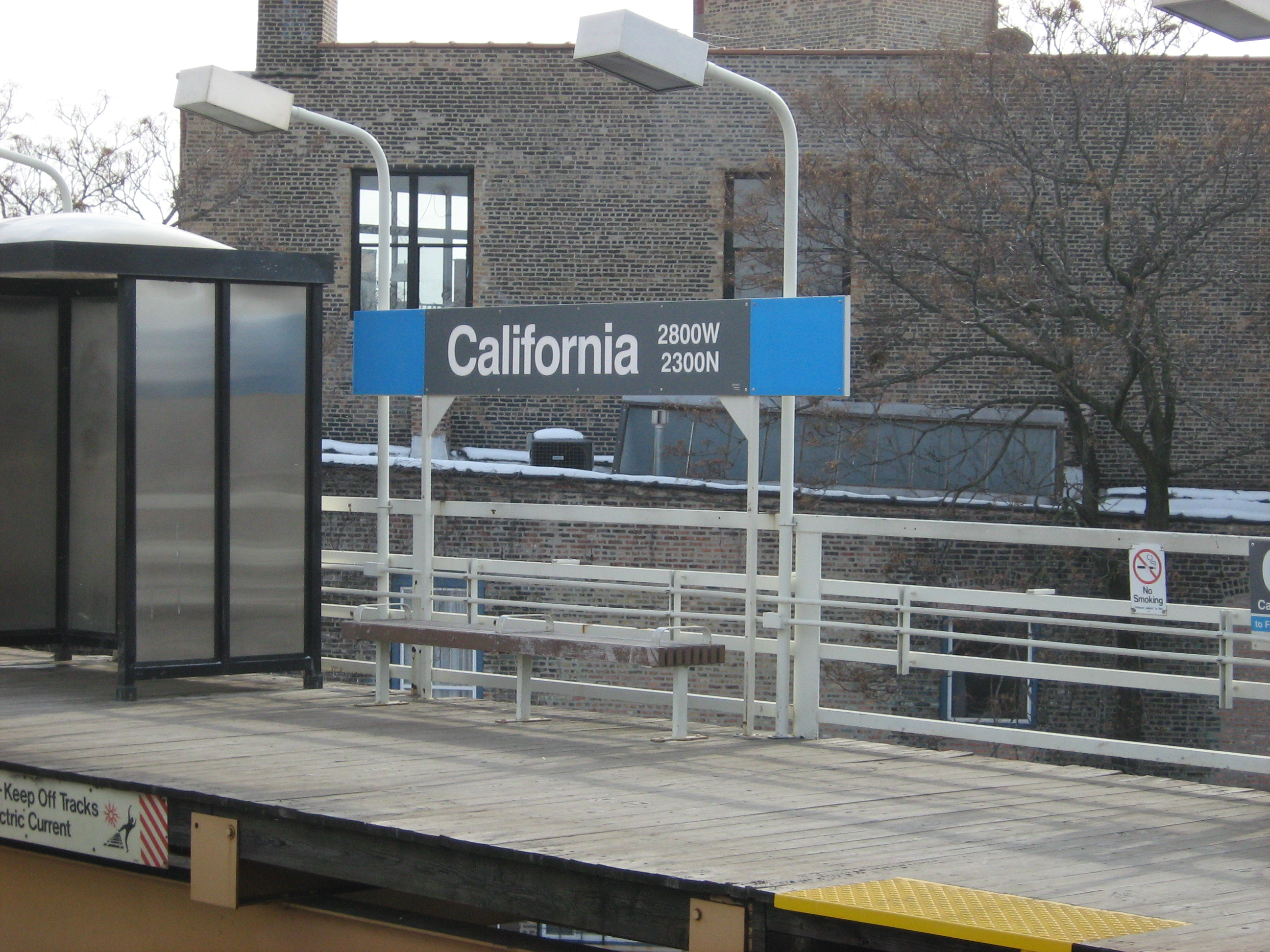 California Avenue, Milwaukee Ave and Lyndale Street (2800 W/2300 N) 2211 N. California Ave. Chicago, IL 60647 Blue Line (O'Hare Branch)